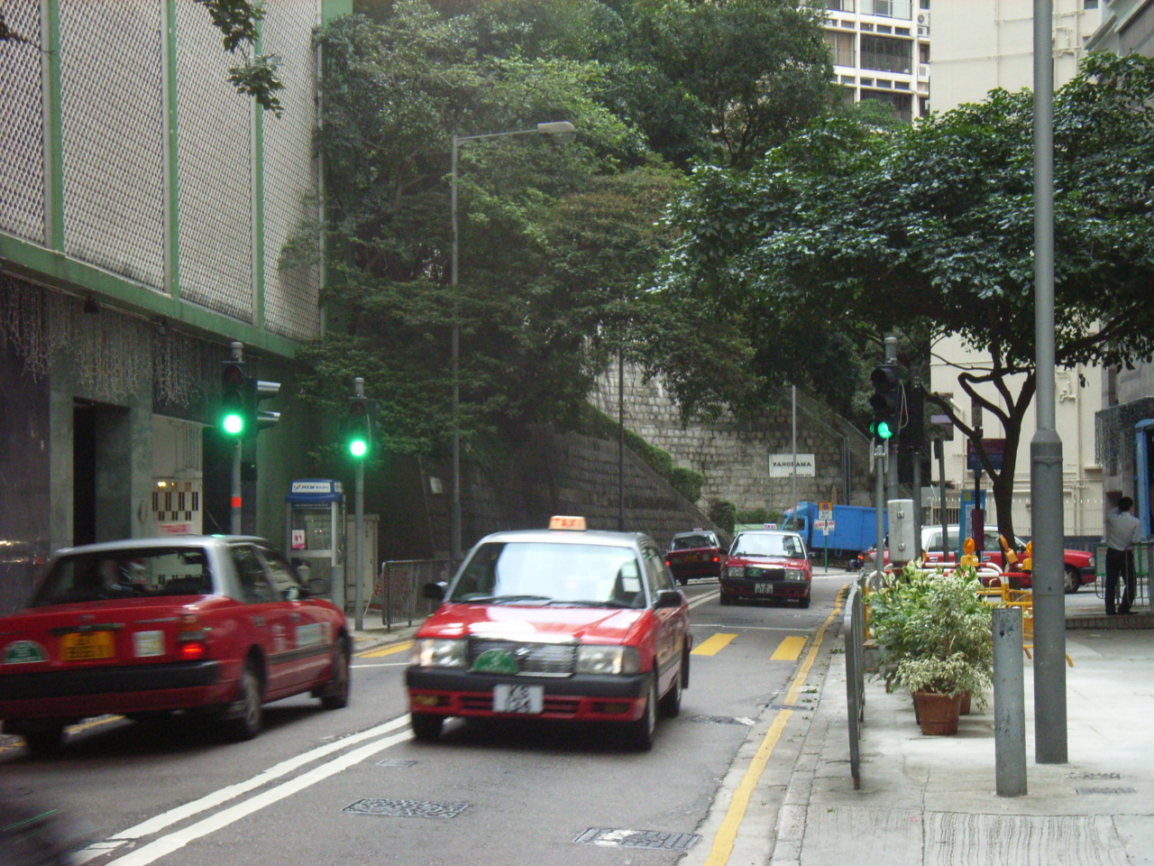 干德道, Conduit Road, Mid-Levels, Central, Hong Kong CandyRobin's production